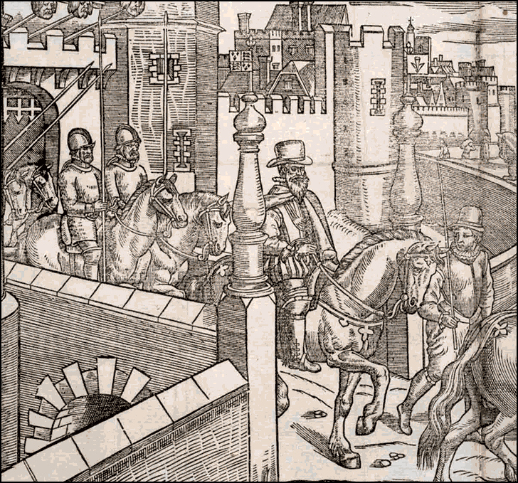 Sir Henry Sidney, Lord-Deputy, accompanied by an armed force, sets out from Dublin Castle for a progress through Ireland. Detail from a plate in The Image of Irelande, by John Derrick (London, 1581).